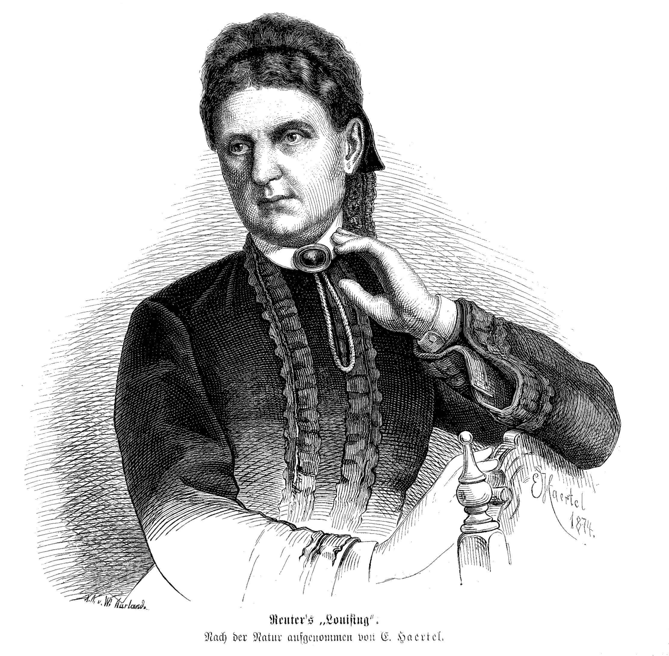 caption: "Reuter’s „Louising“. Nach der Natur aufgenommen von E. Haertel."